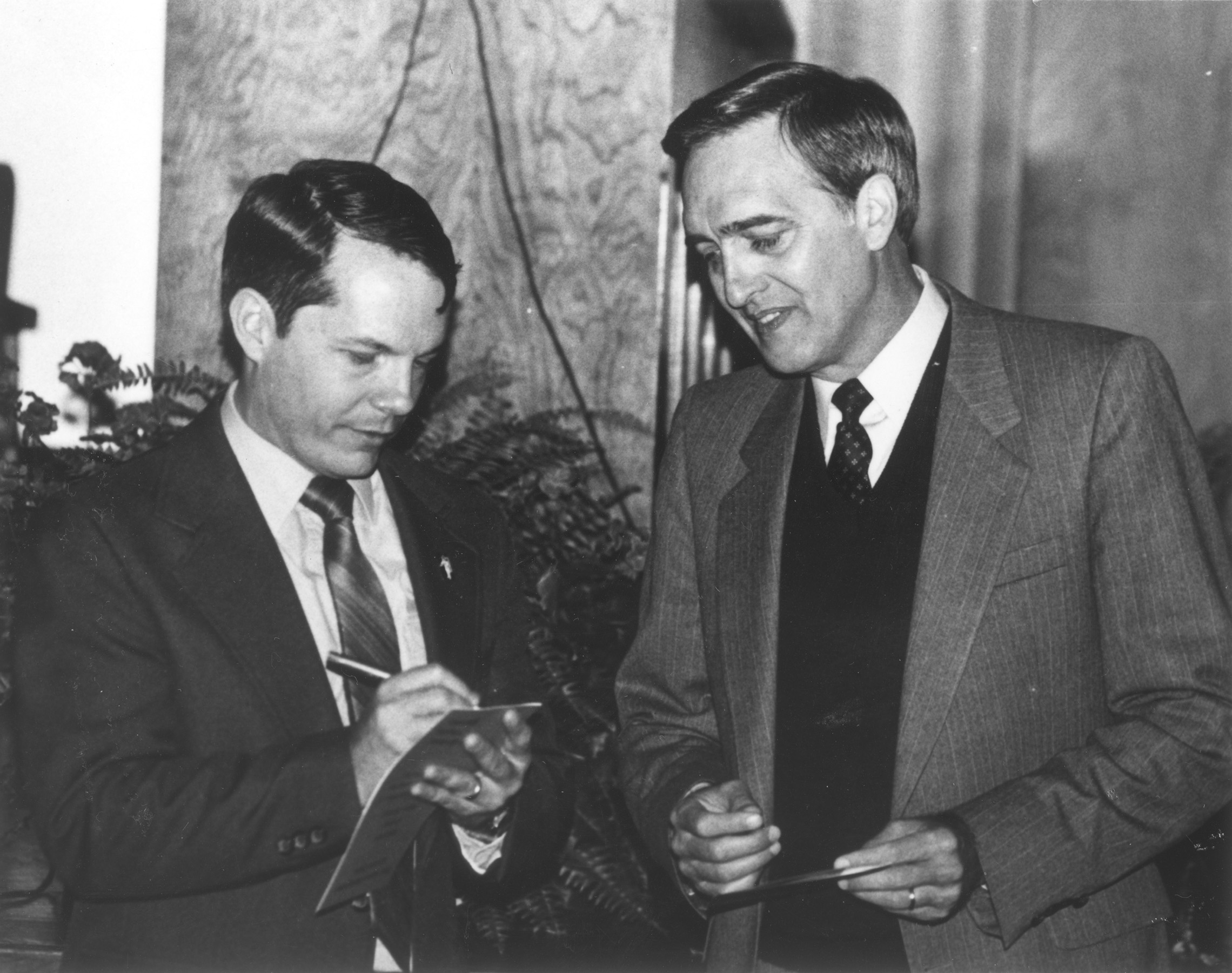 Astronaut Robert Stewart with John Rouse, University of Texas at Arlington Dean of Engineering (right).